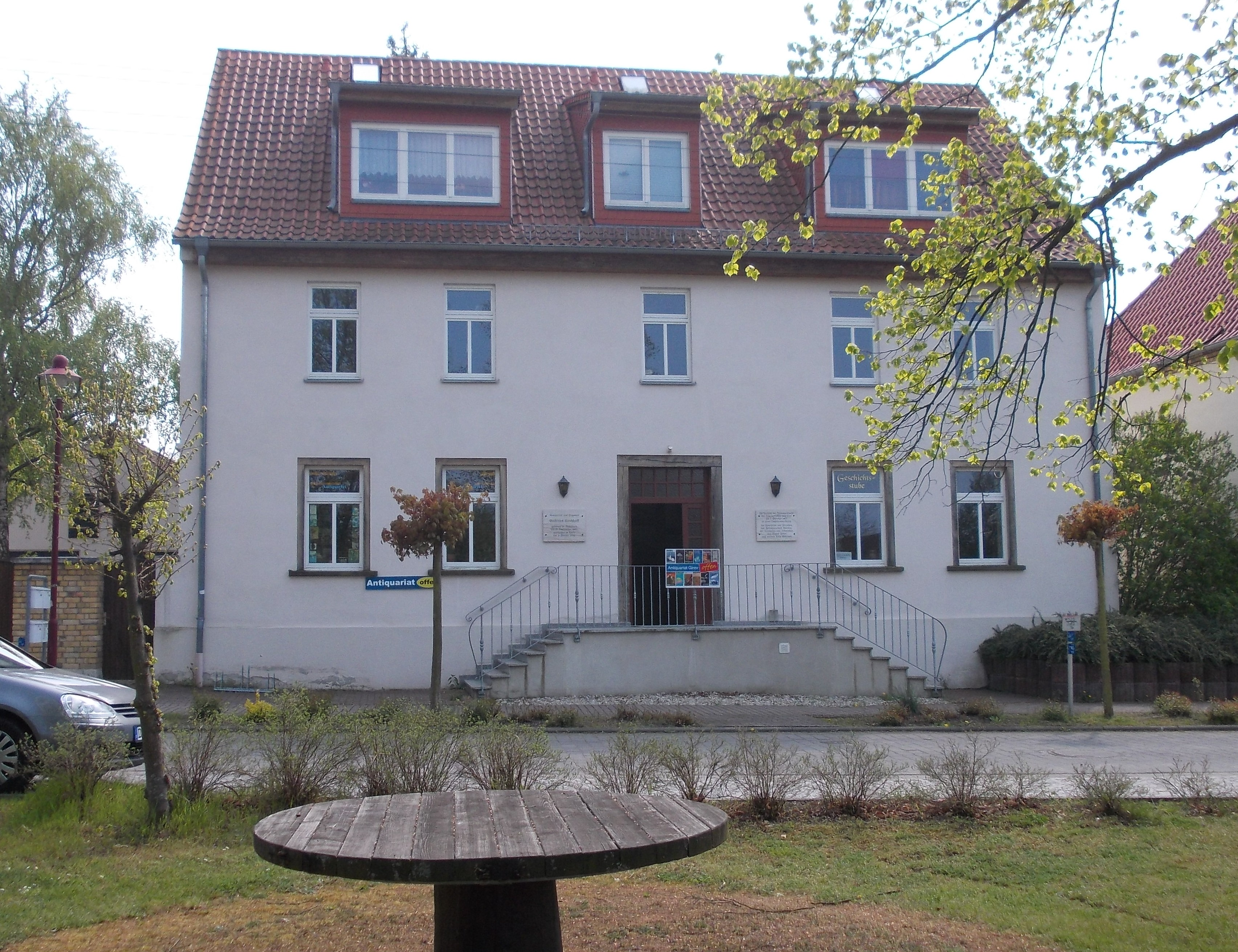 Old rectory in Mühlbeck (Muldestausee, Anhalt-Bitterfeld district, Saxony-Anhalt), today an antiquarian bookshop